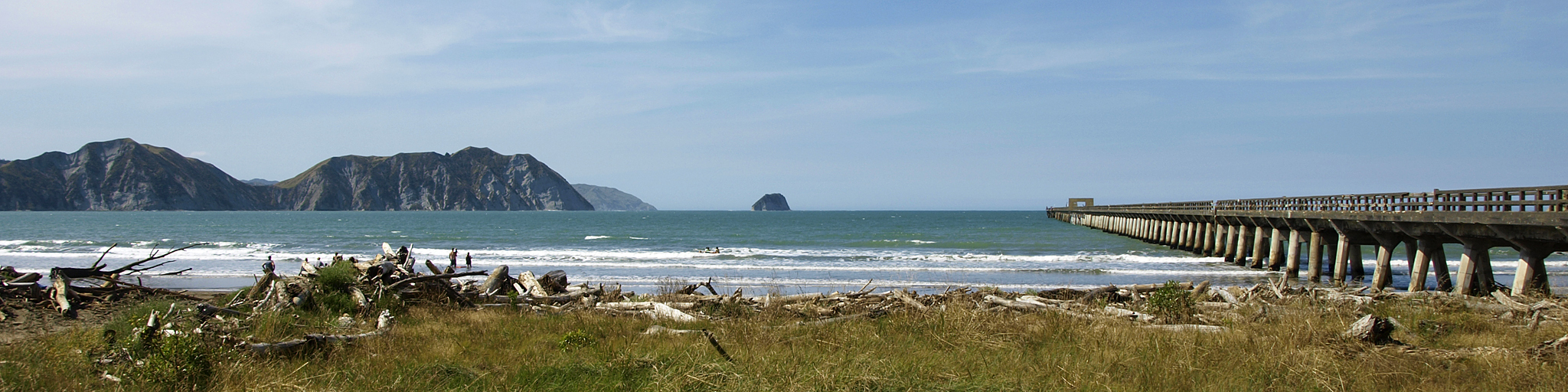 Tolaga Bay, Gisborne Region, New Zealand (with Tolaga Bay Wharf)